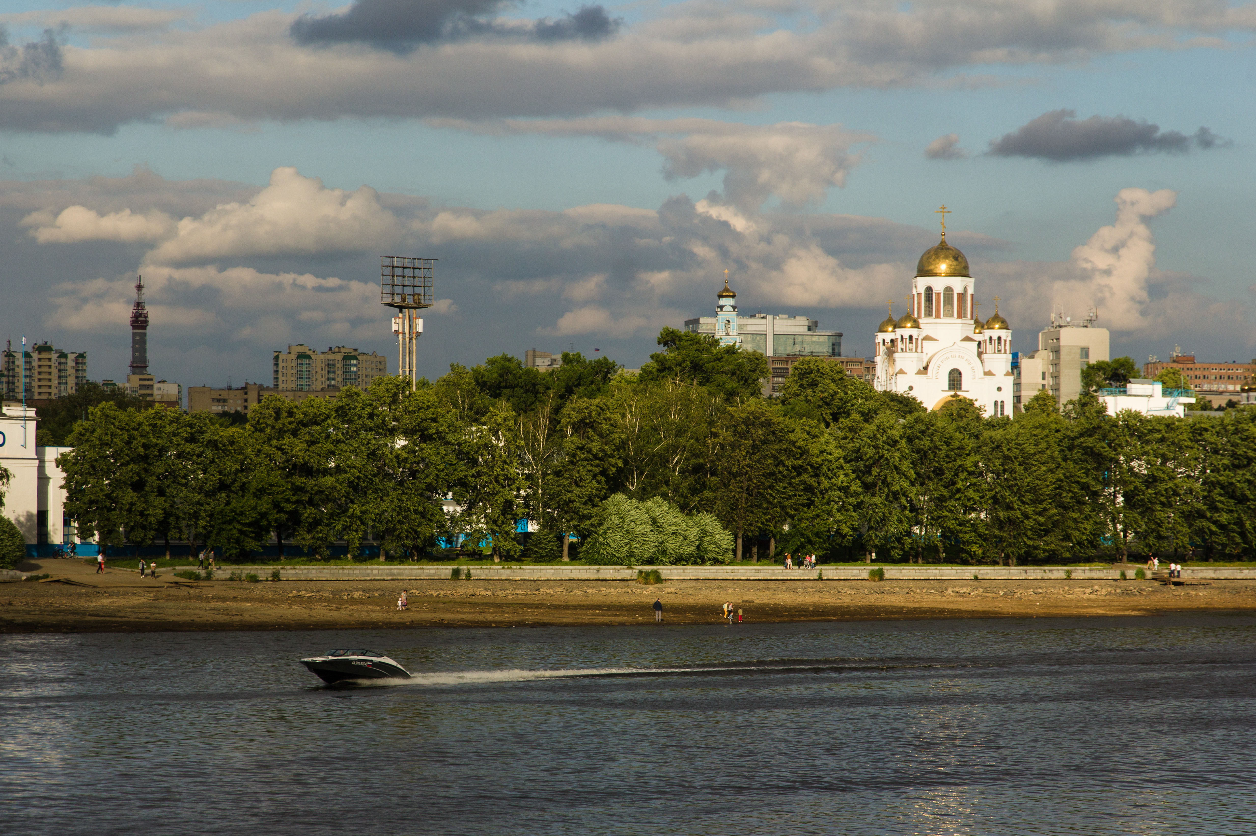 Iset River in Yekaterinburg, July, 2017-2